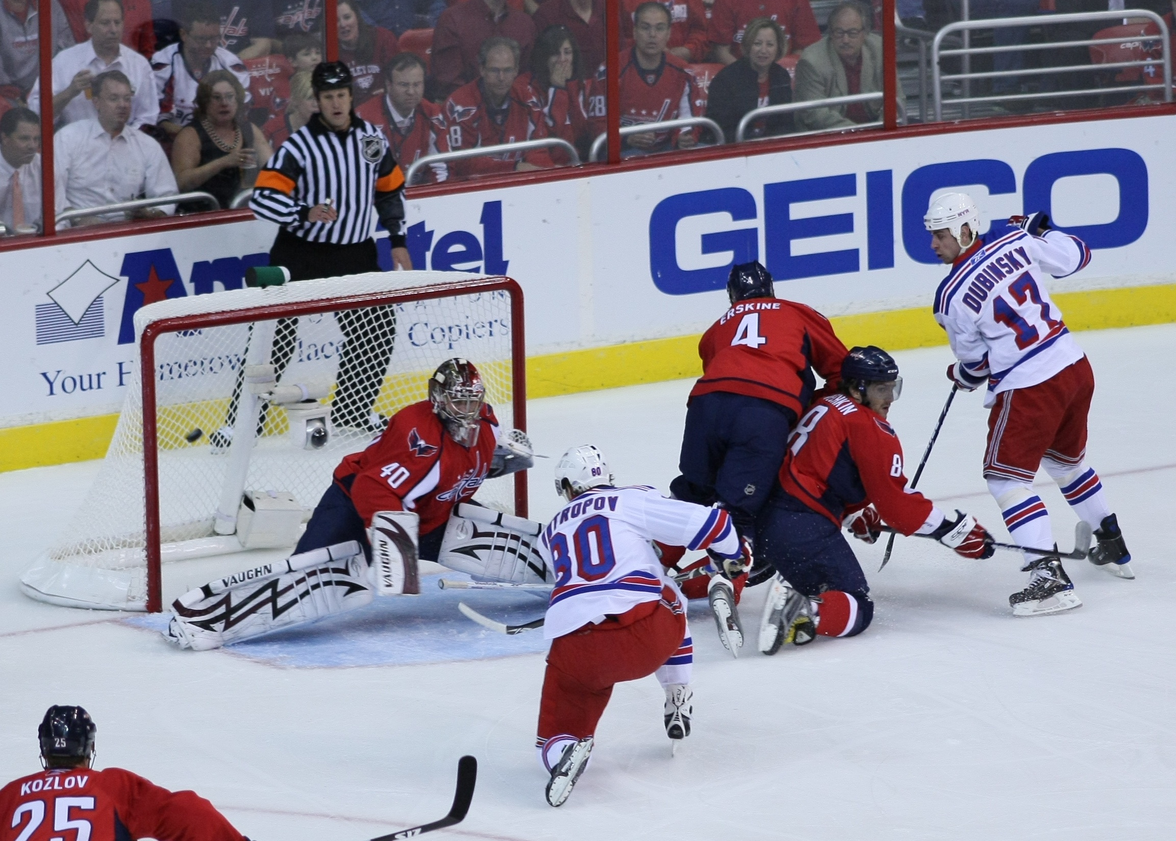 Nik Antropov scores a goal in the 2009 playoffs